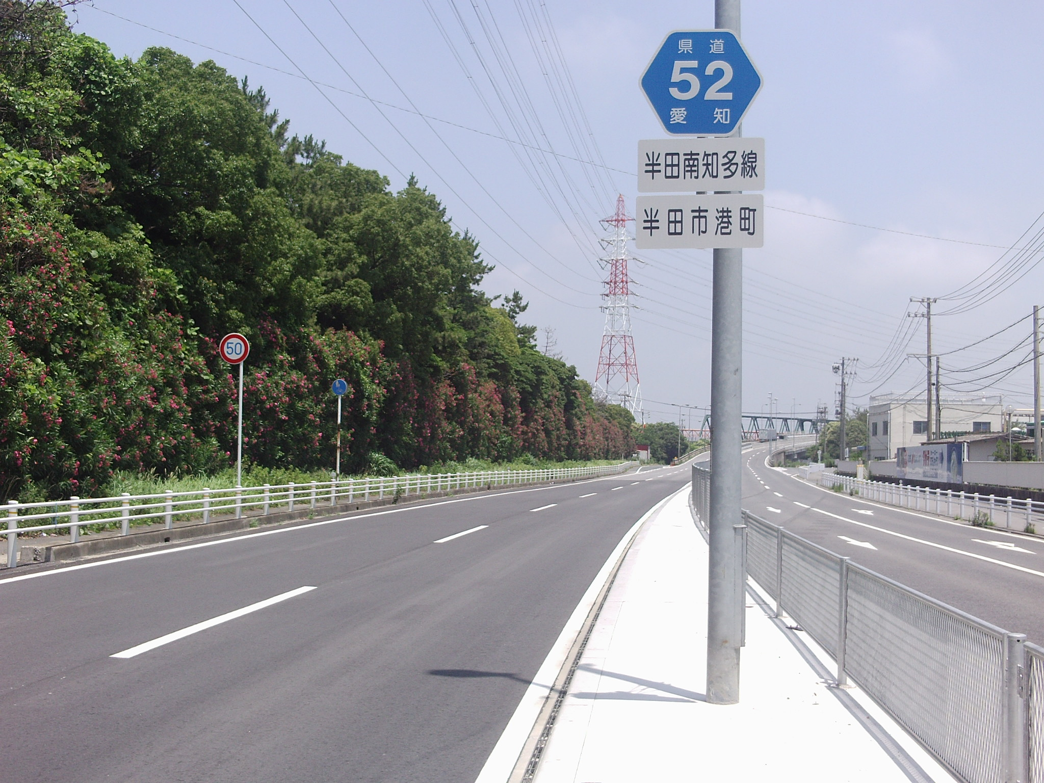 The Aichi Prefectural Road Route 52 in Minatomachi, Handa City